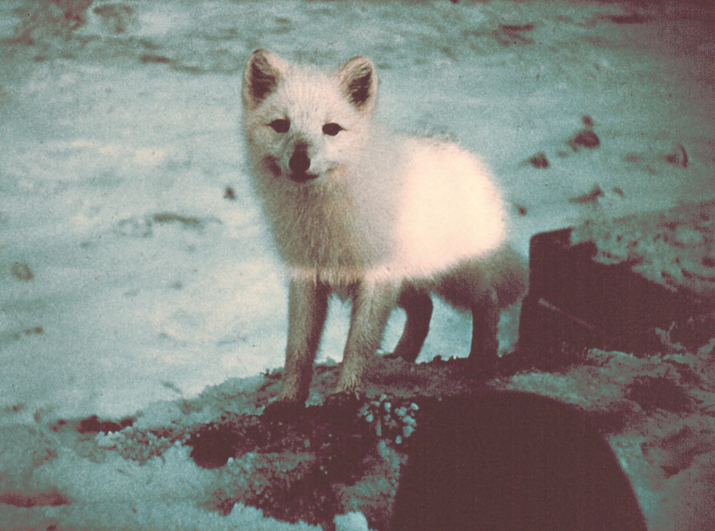 Arctic fox - Alopex lagopus in North Slope, Alaska